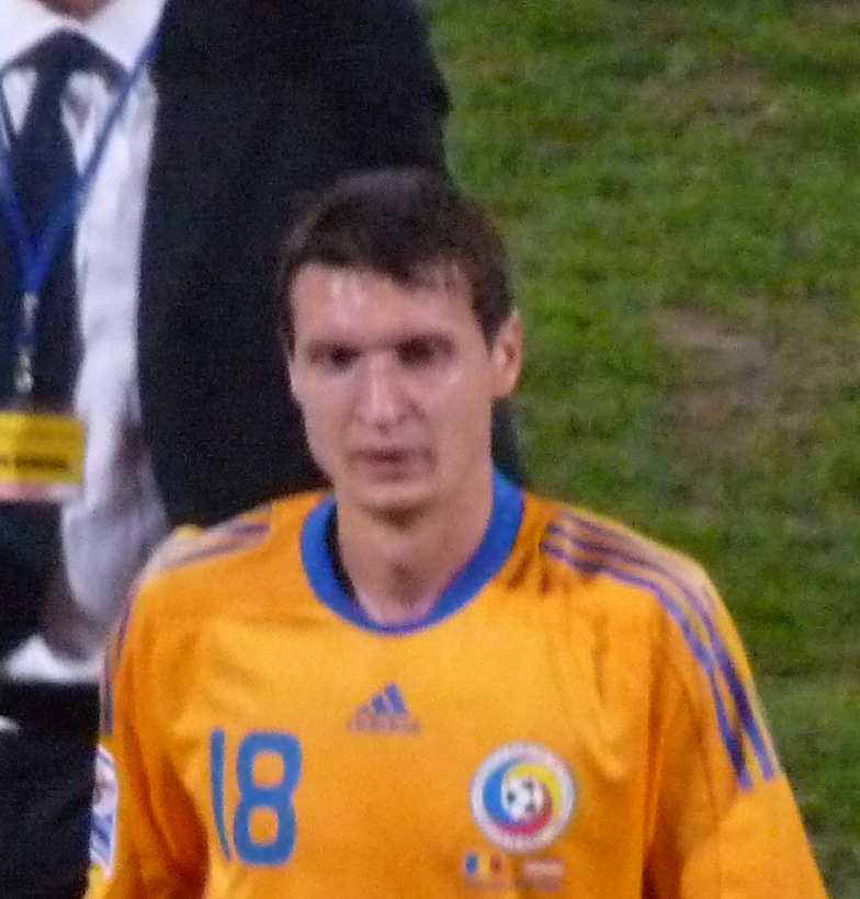 Ionuţ Mazilu playing for the national football team of Romania against Austria on the Steaua stadium in Bucharest